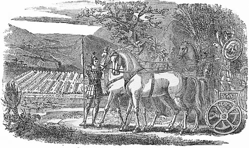 Pyrrhus viewing the Roman encampment. Illustration in Abbott's History of Pyrrhus, 1901 edition.